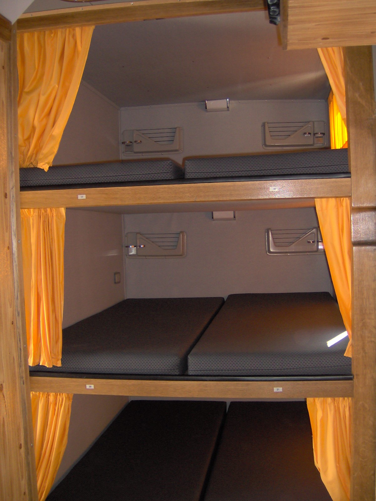 Historical bus travel trailer Karosa LP 30 in Brno - interior